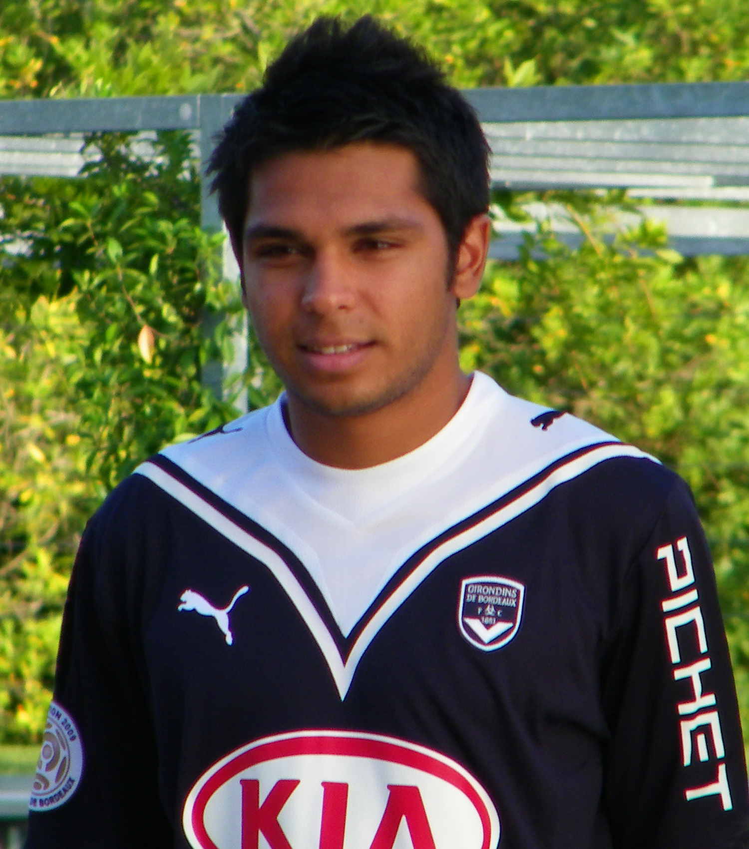 Benoît Trémoulinas, player at FC Girondins Bordeaux. Taken by Valentin Trijoulet. Public domain.